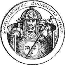 Portrait of Huayna Capac in the frontispiece to the fifth Decade of Historia general de los hechos de los castellanos en las Islas y Tierra Firme del mar Océano que llaman Indias Occidentales by Antonio de Herrera